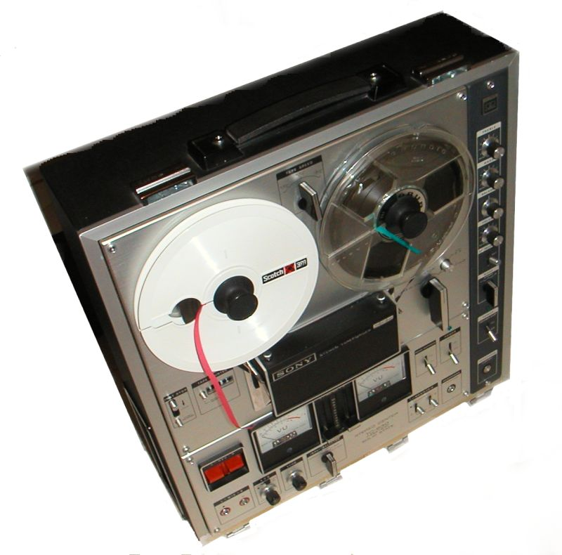 Image of a Sony TC-630, a reel-to-reel recorder, taken by myself (Nixdorf). Nixdorf 20:22, 20 Jun 2004 (UTC)